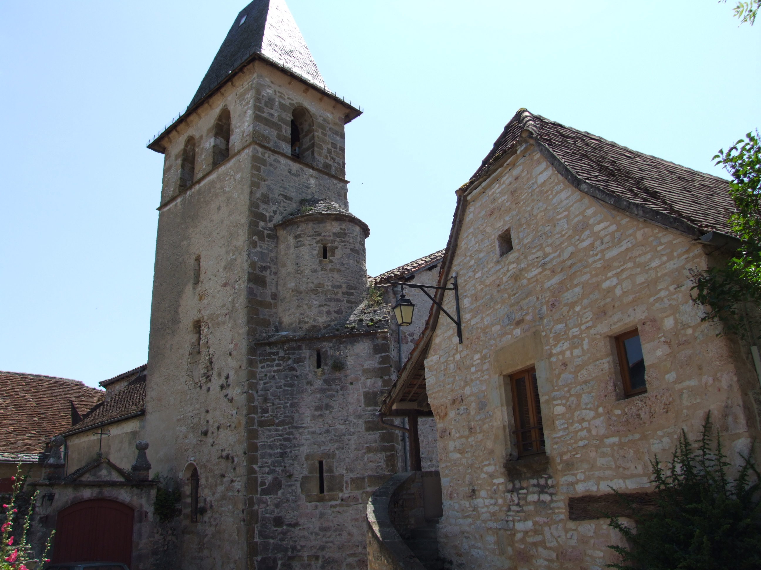 Loubressac, Lot, FRANCE